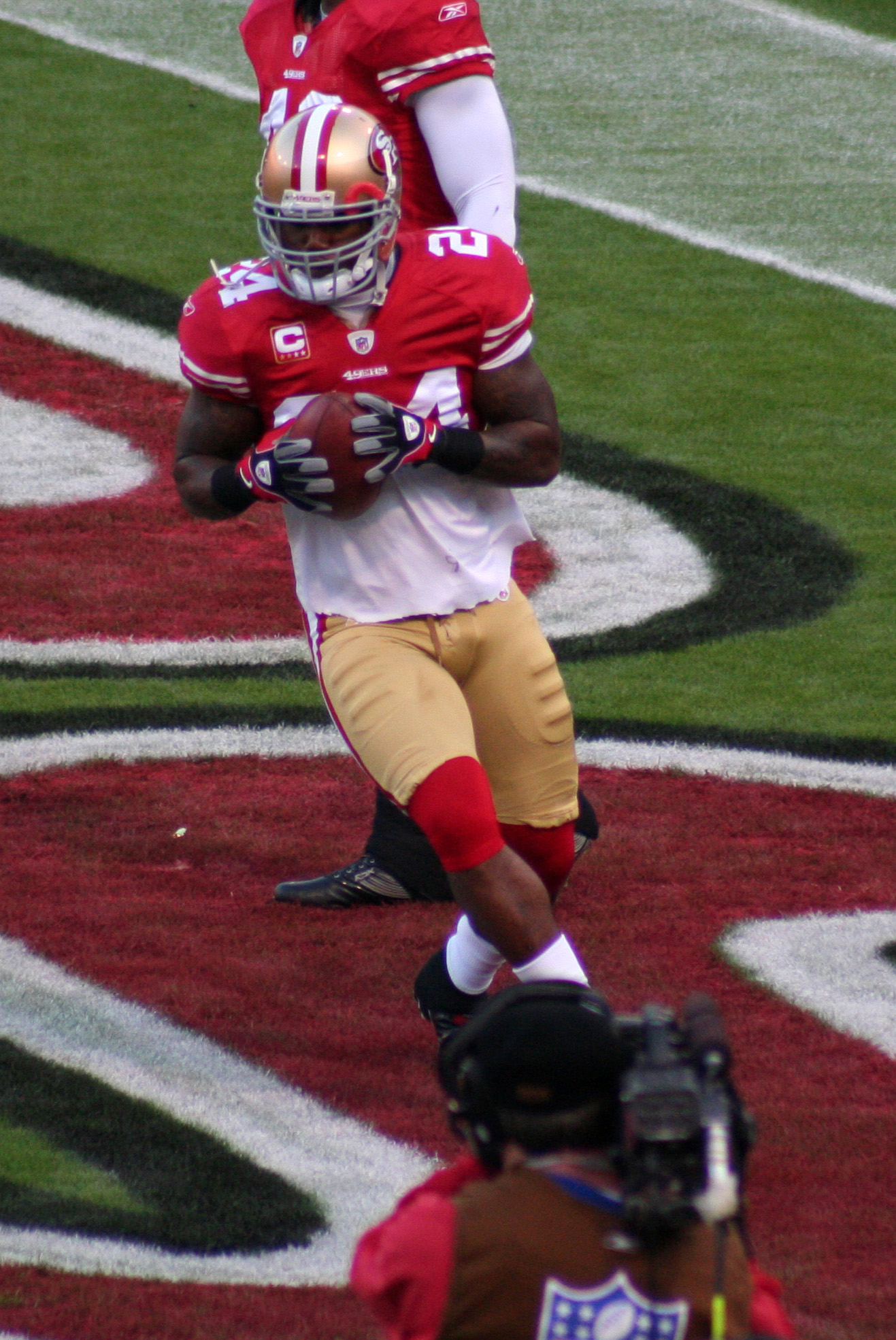 Michael Robinson of the San Francisco 49ers warming up before a game against the Chicago Bears